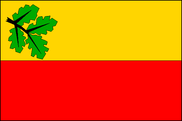 Municipal flag of Doubice village, Děčín District, Czech Republic.